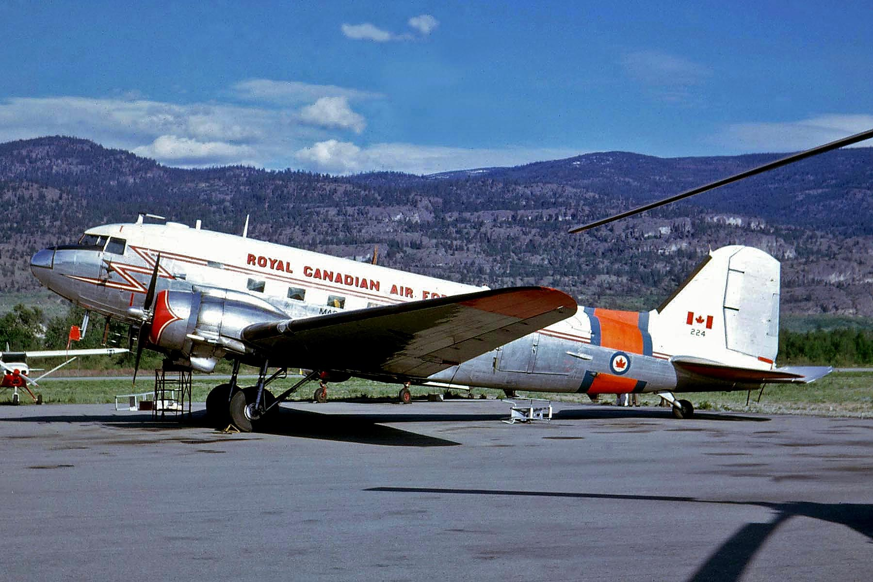 Taken at Penticton, British Columbia, Canada